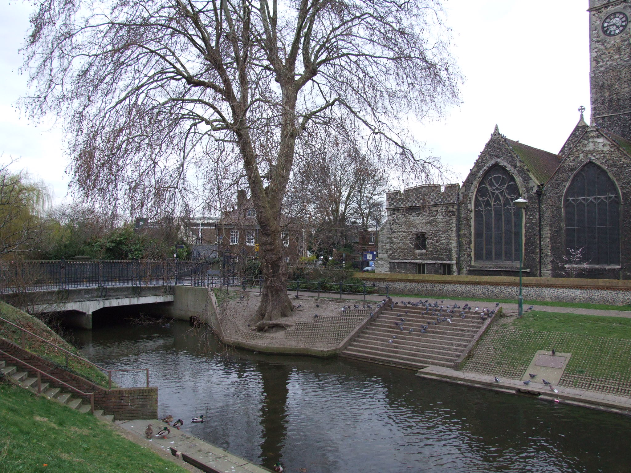 Holy Trinity Church, from over the River Darent, the site of the original ford, and the Dartford bridge is to the left..